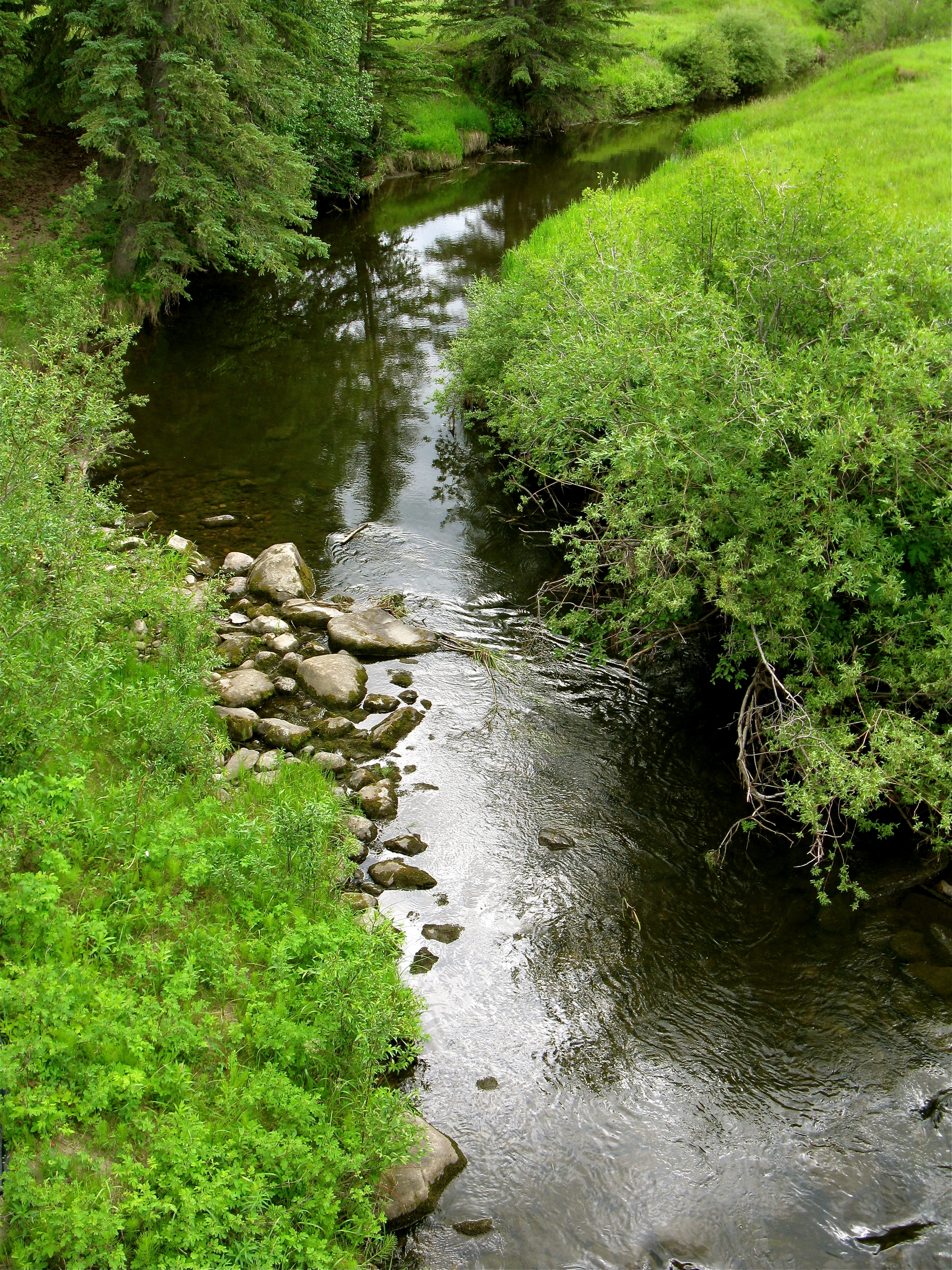 The Edson River near its confluence with the Mcleod River, near Edson, Alberta.